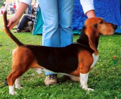 Basset Artesien Normand.